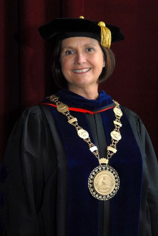 The investiture of Dr. Betsy Vogel Boze as the 5th President of The College of The Bahamas